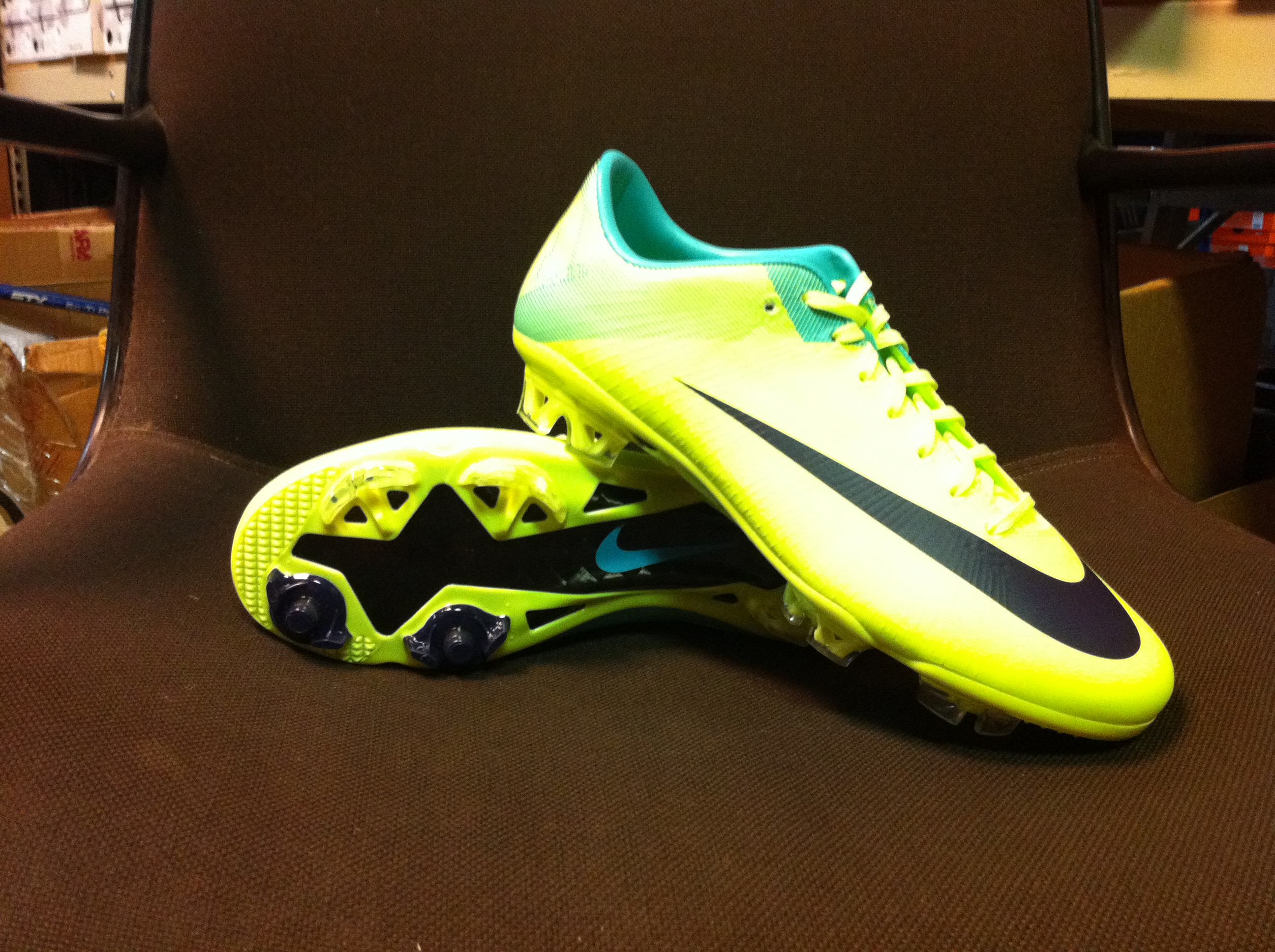 Nike Superfly III Volt/Retro Colorway